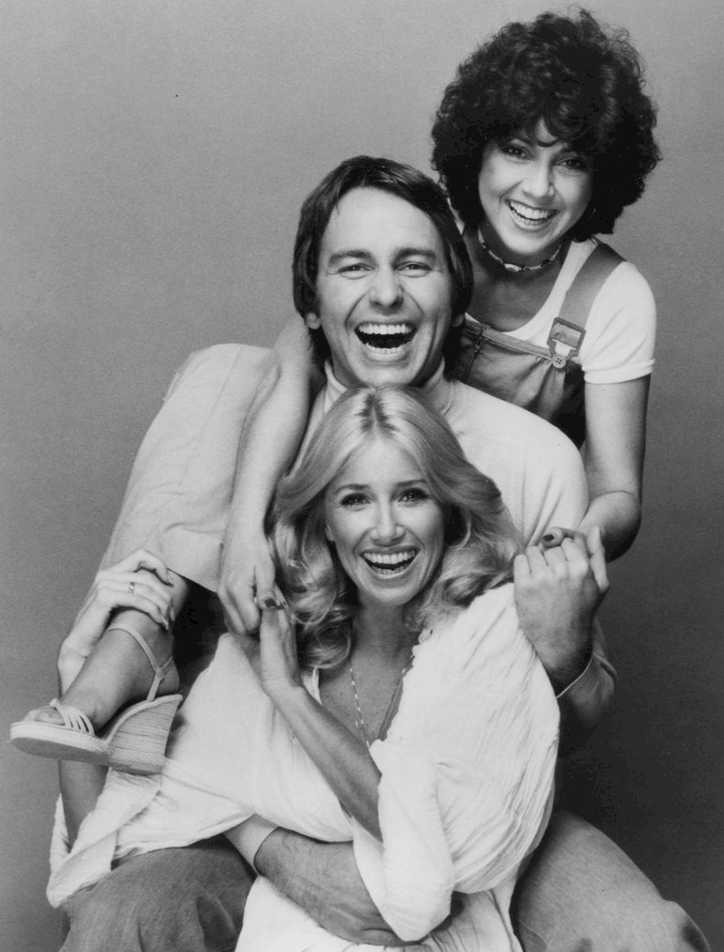 Photo of the roommates from the television program Three's Company. From top-Joyce DeWitt (Janet), John Ritter (Jack), Suzanne Somers (Chrissy).